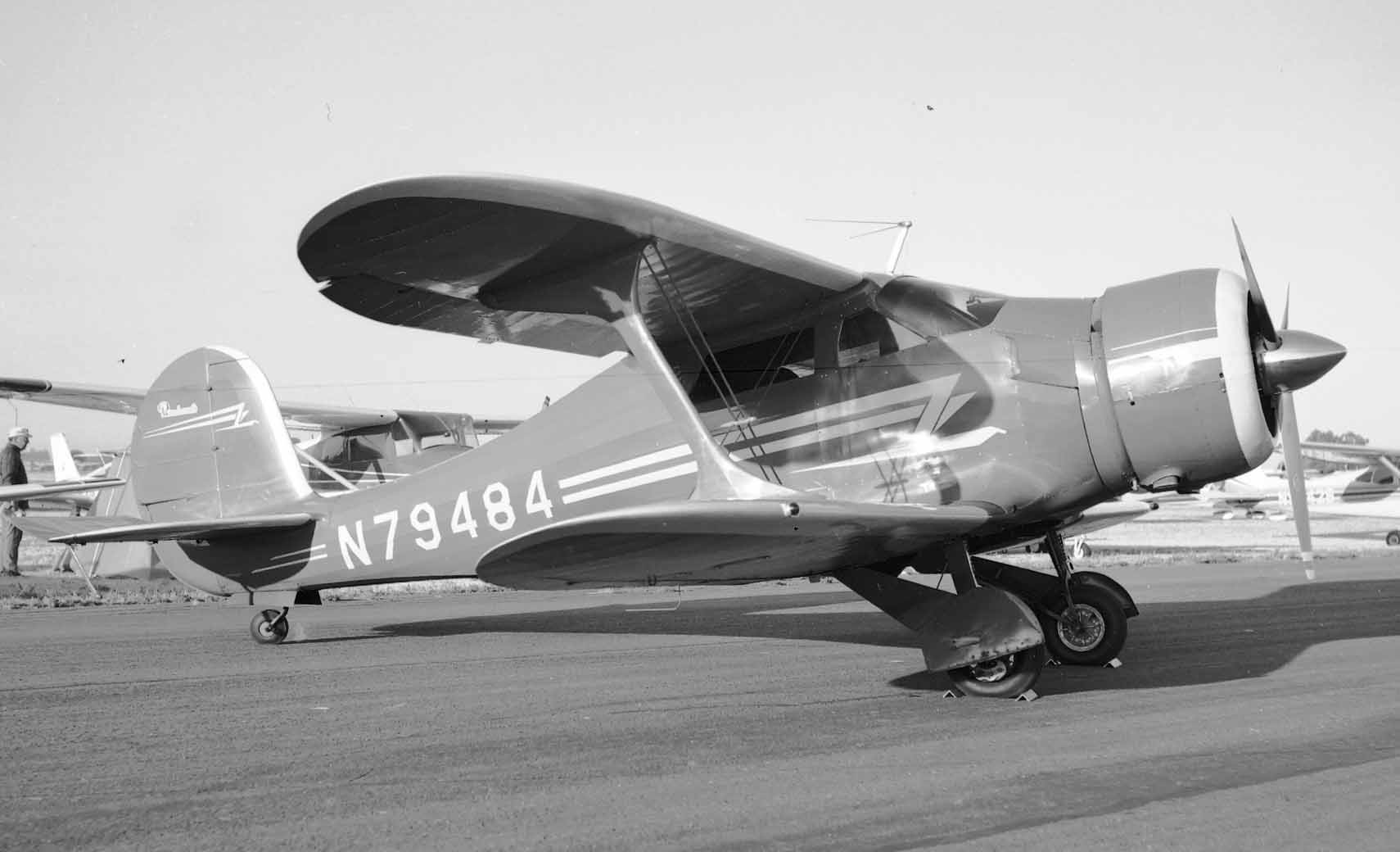 At Merced, CA, in June 1980. This is the only D-17 that I have ever seen with a three blade prop. Are there any others?